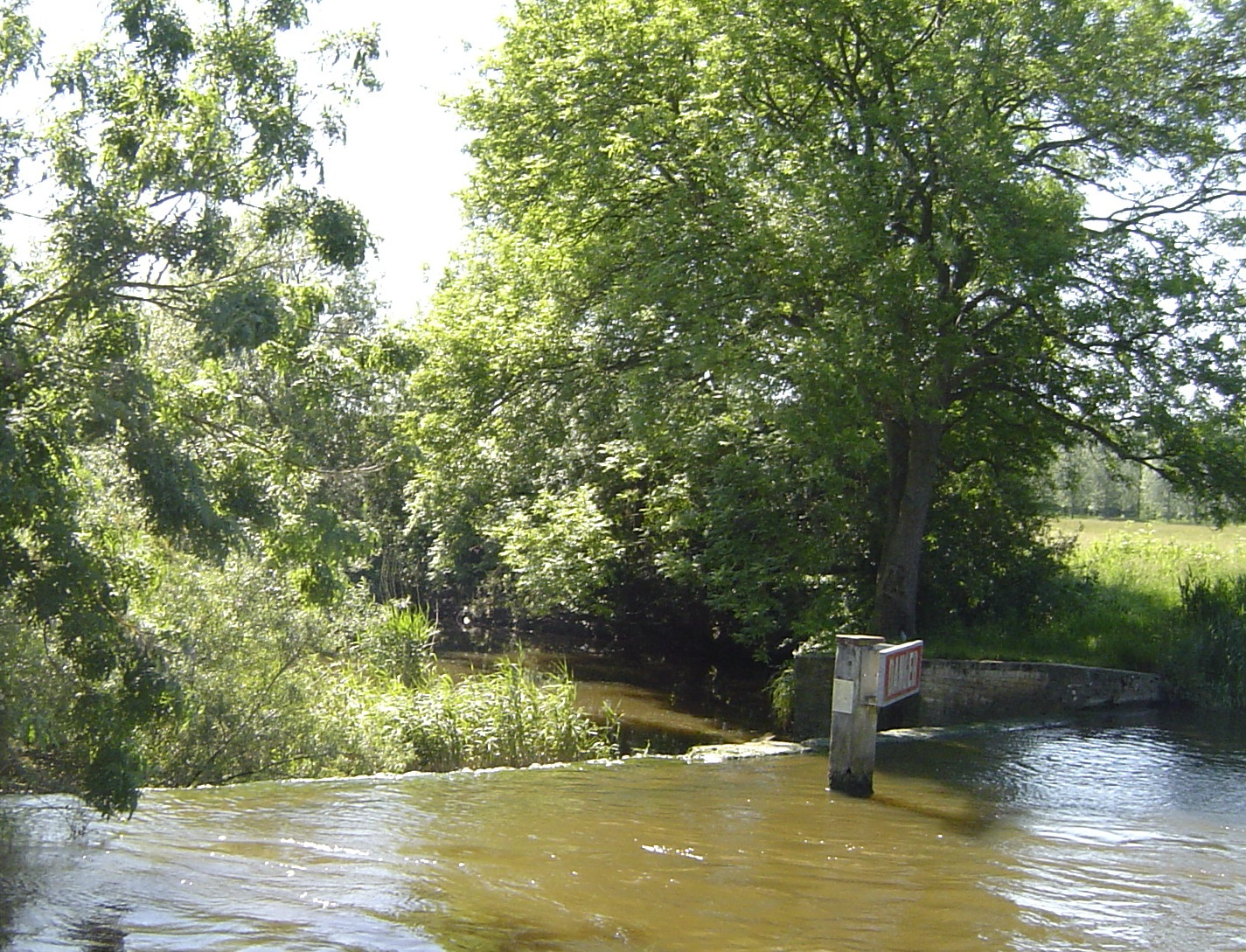 Swift Ditch, River Thames